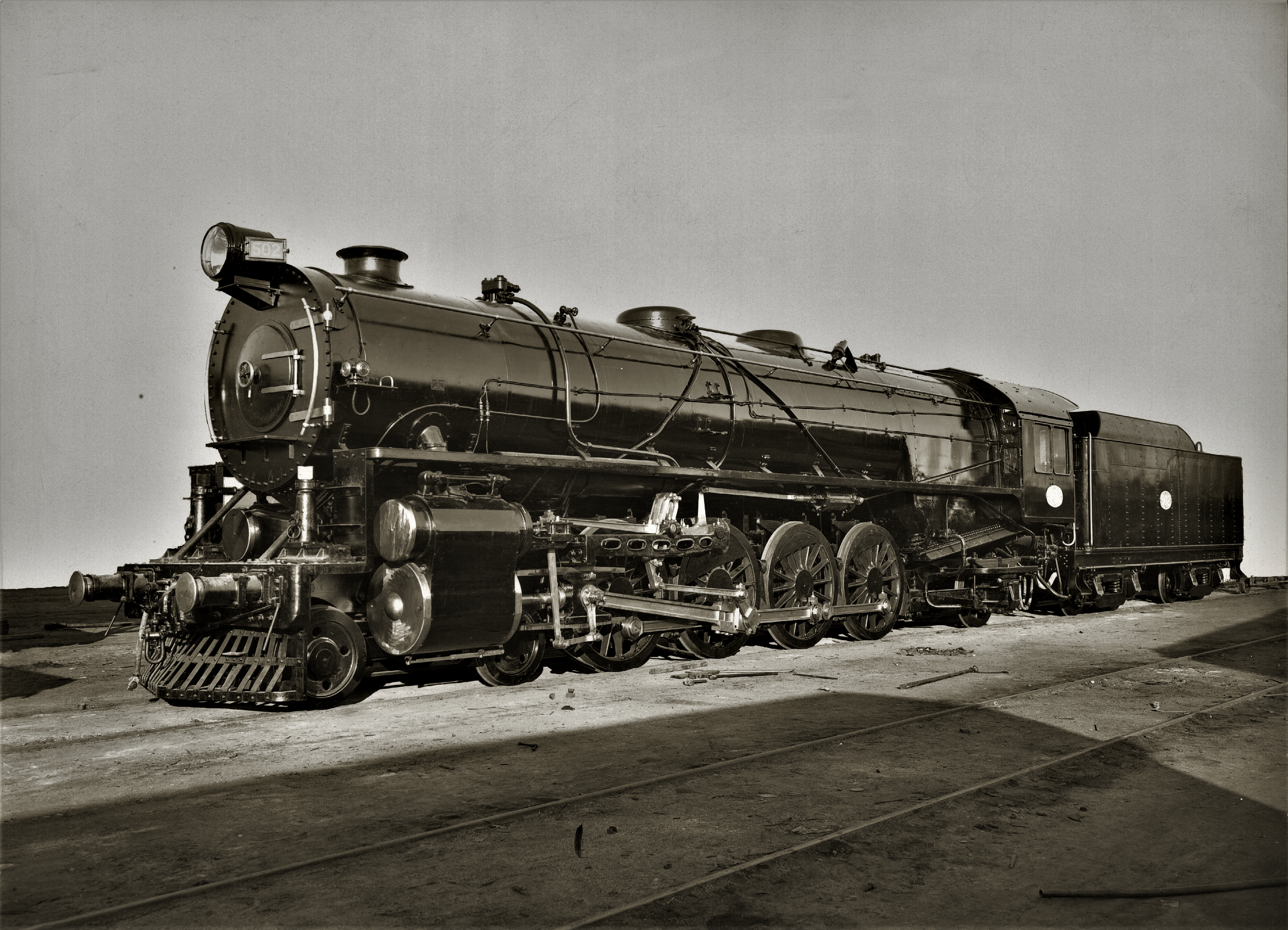 South Australian Railways 500 Class Locomotive No. 502 "James McGuire". Approximately 1926. State Library of South Australia B 3994.